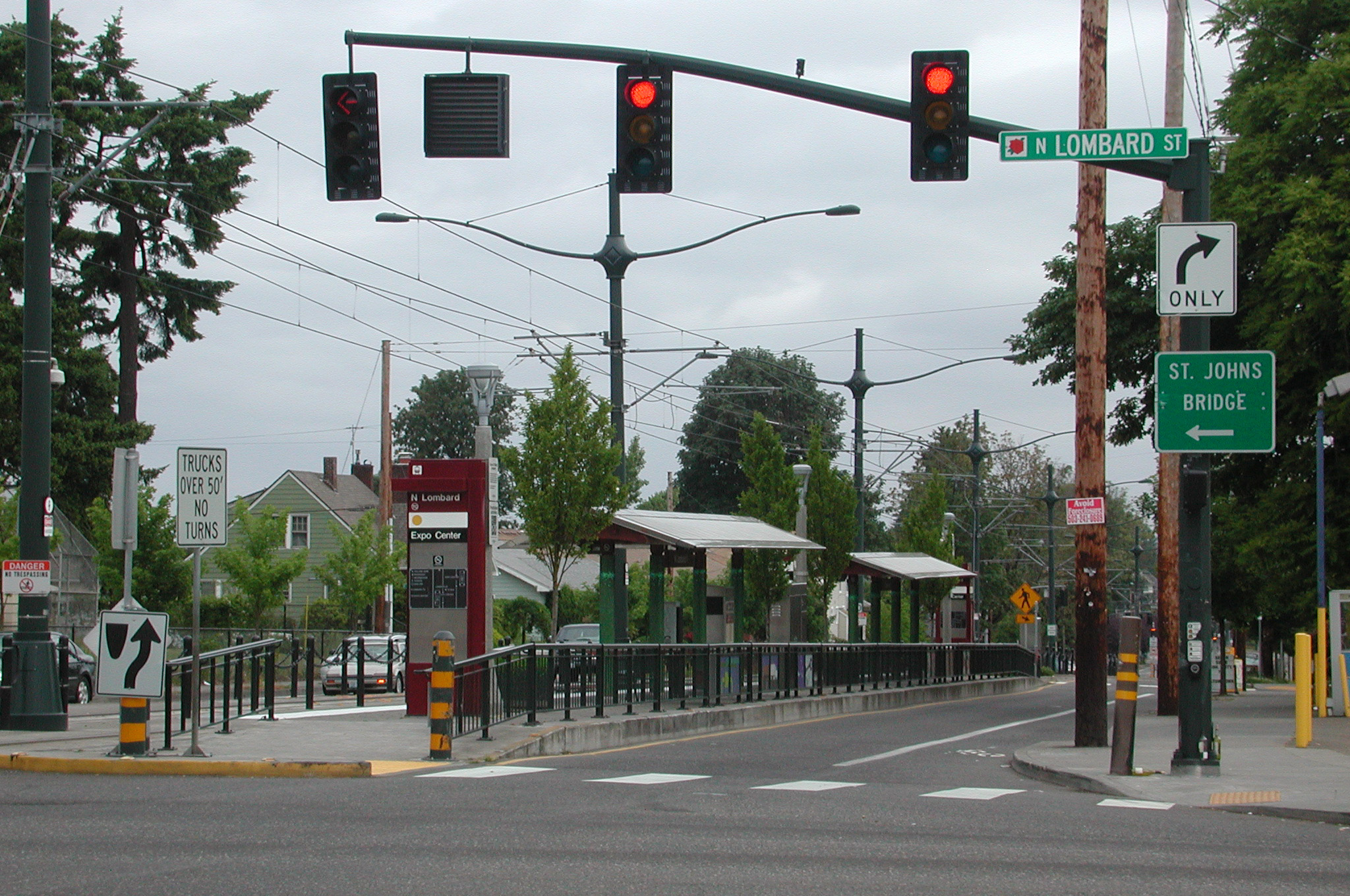 North platform of the North Lombard Street station of the Metropolitan Area Express (MAX) light-rail system in Portland, Oregon, United States, looking northwest